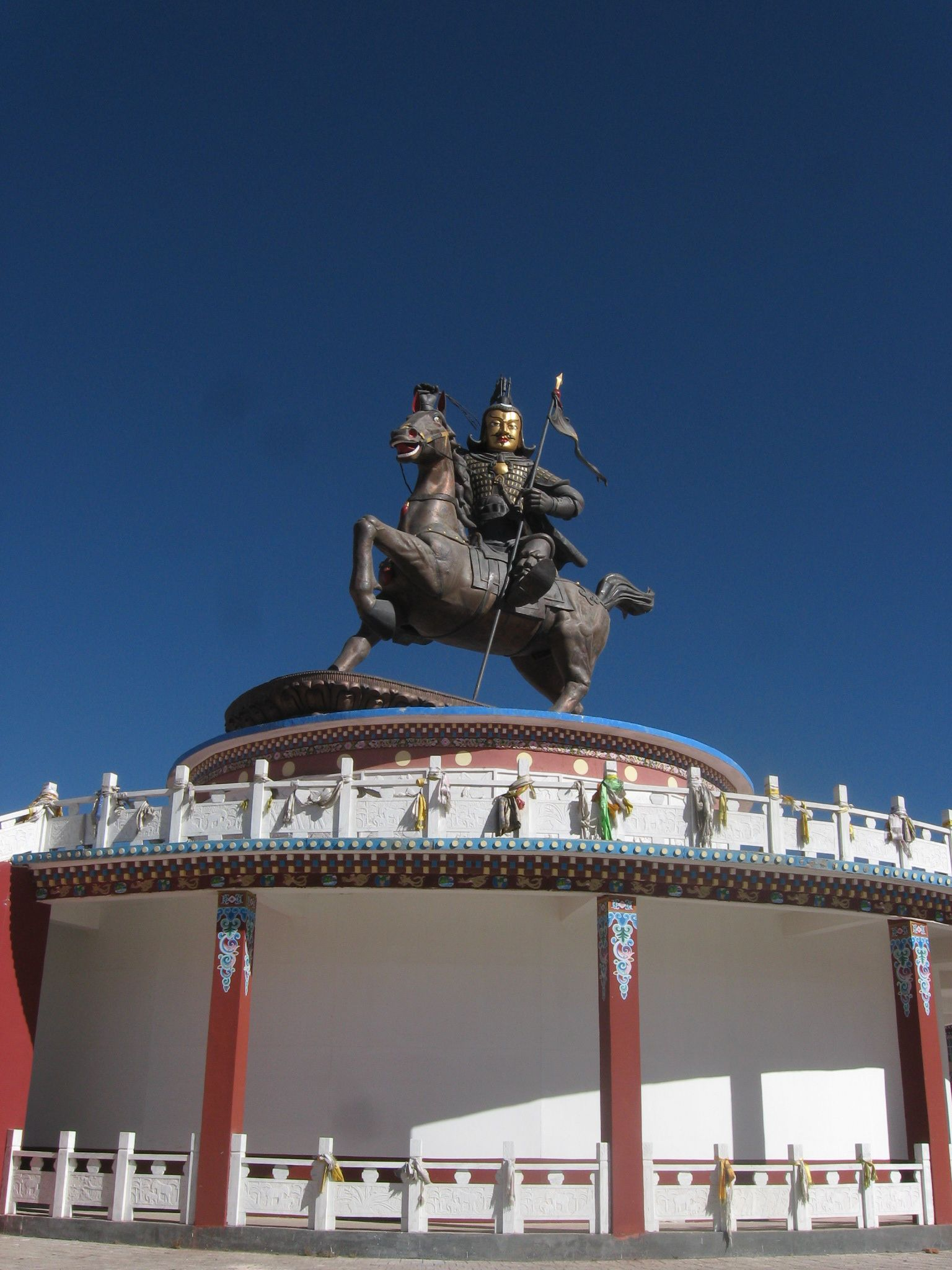 Statue of King Gesar in Tawo town, Machen county, Golog